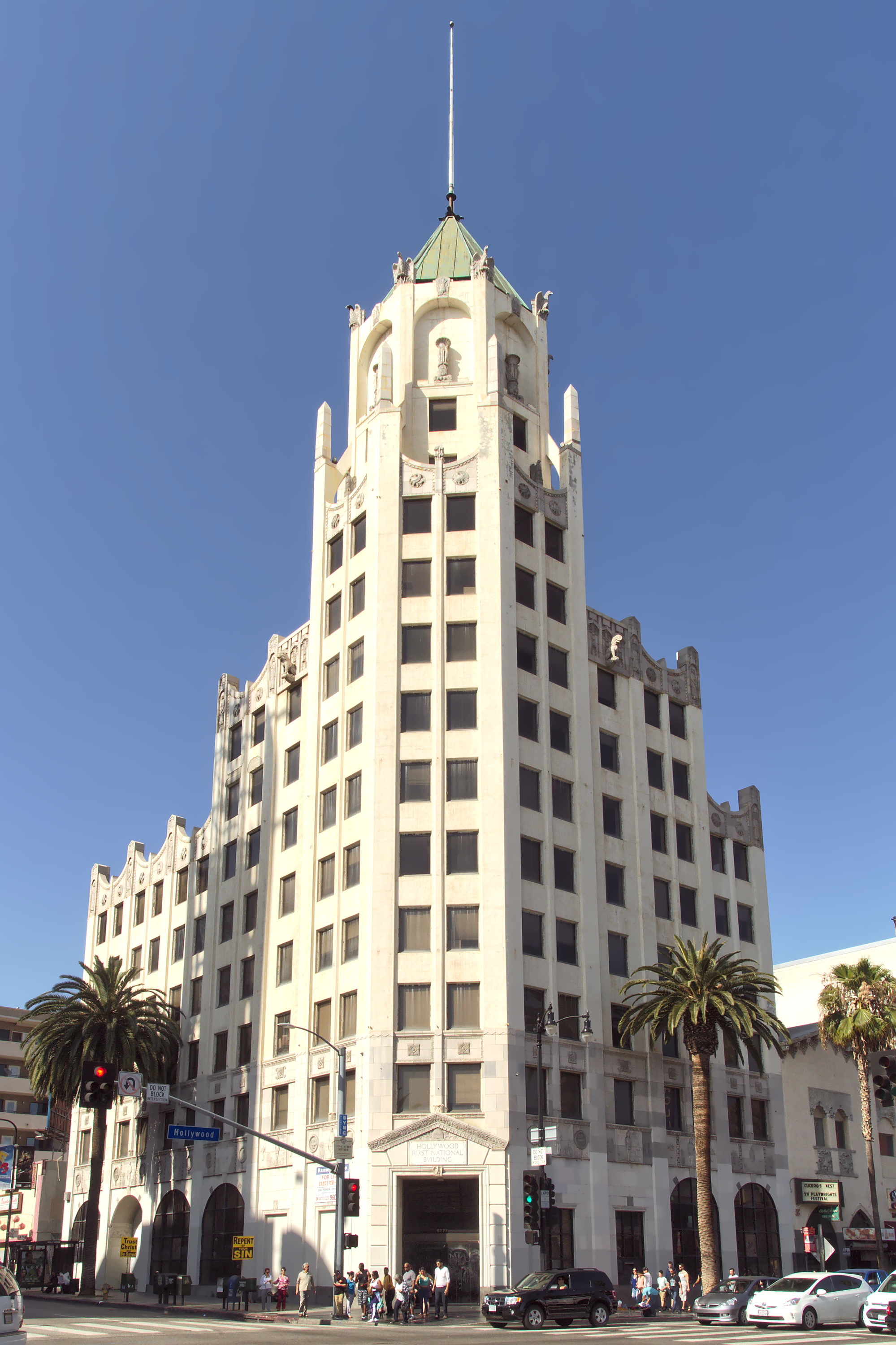 The 13-story Hollywood First National Bank Building, notable for being the second-tallest building in Los Angeles (after City Hall) in its day. It sits vacant at the time of this photo. View is from the southwest.